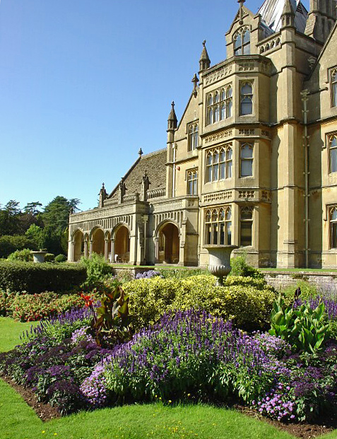 Tyntesfield, a beautiful National Trust, south side